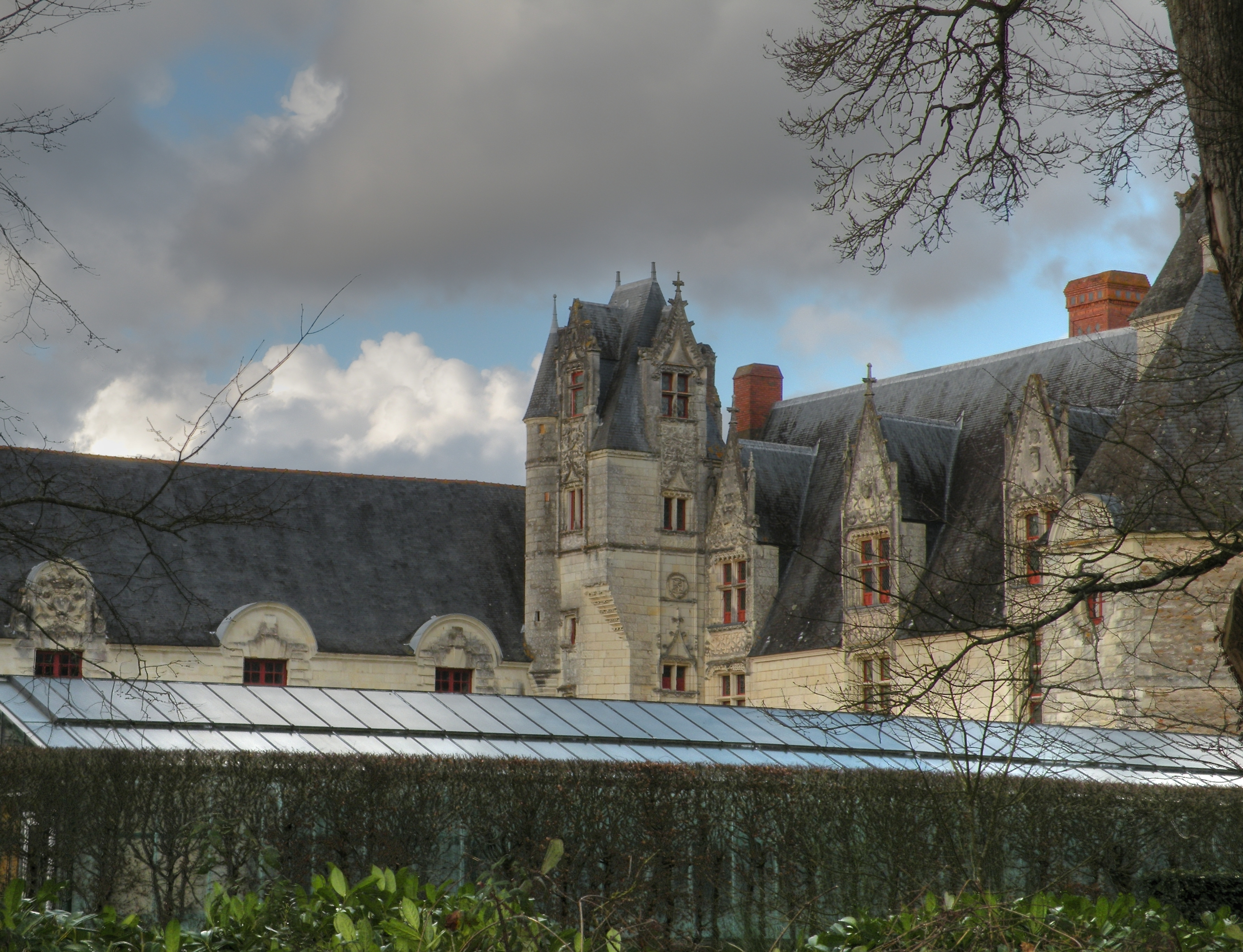 Goulaine castle Haute-Goulaine